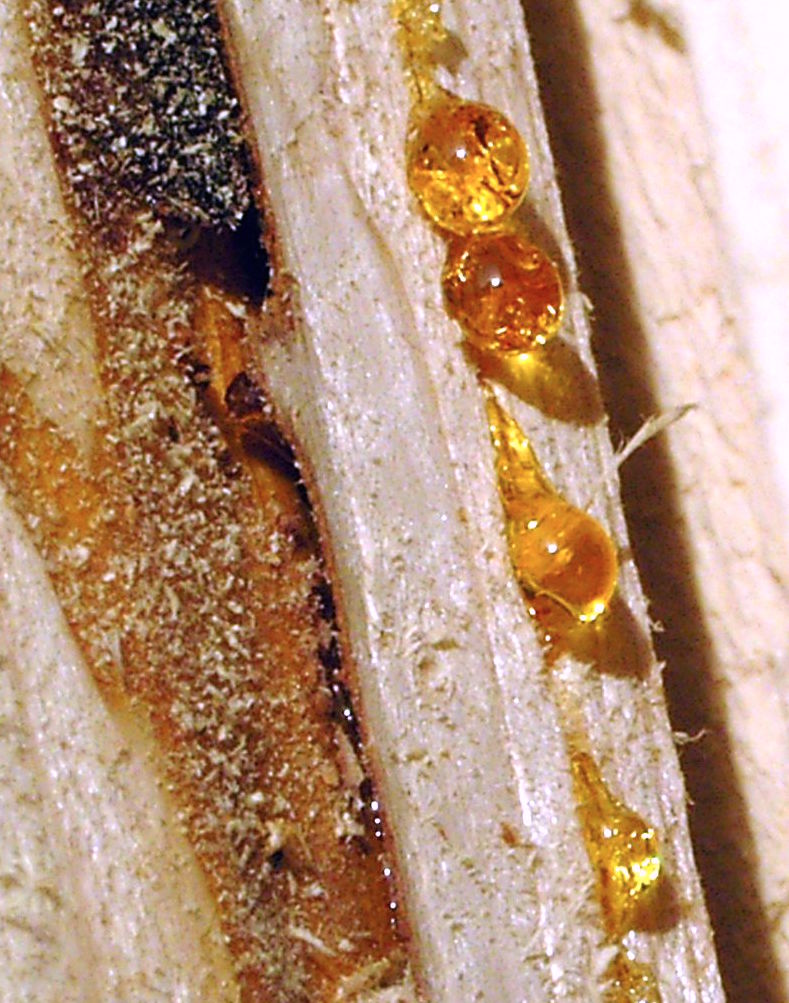 Droplets of resin (Spruce)